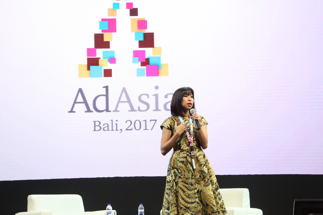 Maya Watono Ad Asia